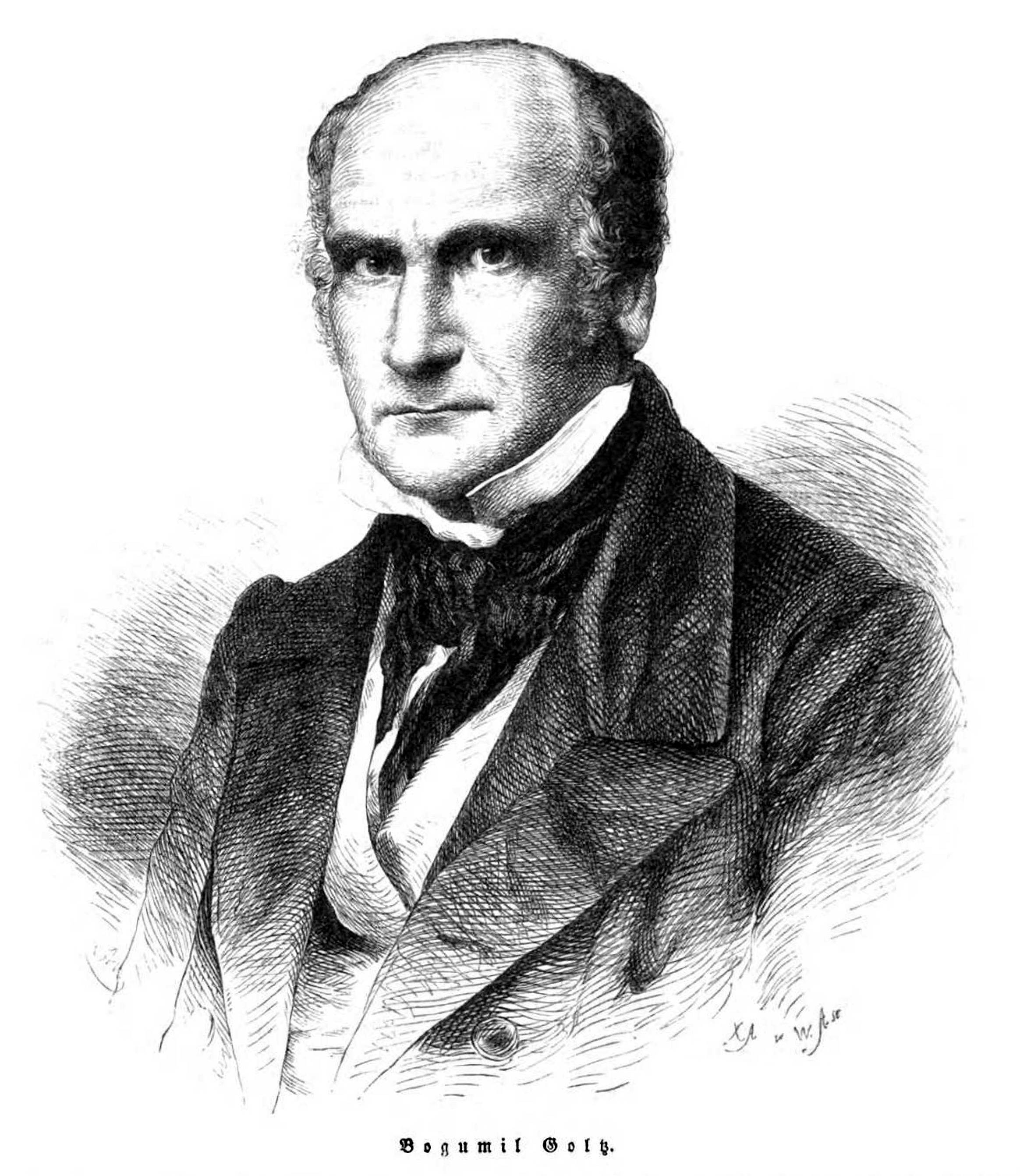 caption: "Bogumil Goltz."